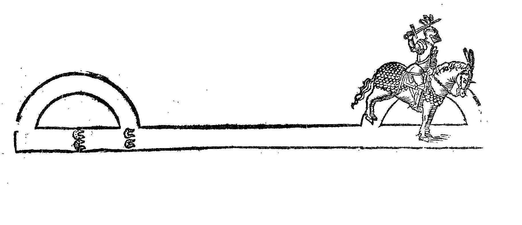 Horse training drawing from Trattato dell'imbrigliare, arreggiare & ferrare cavalli, an ancient horsemanship Italian book.